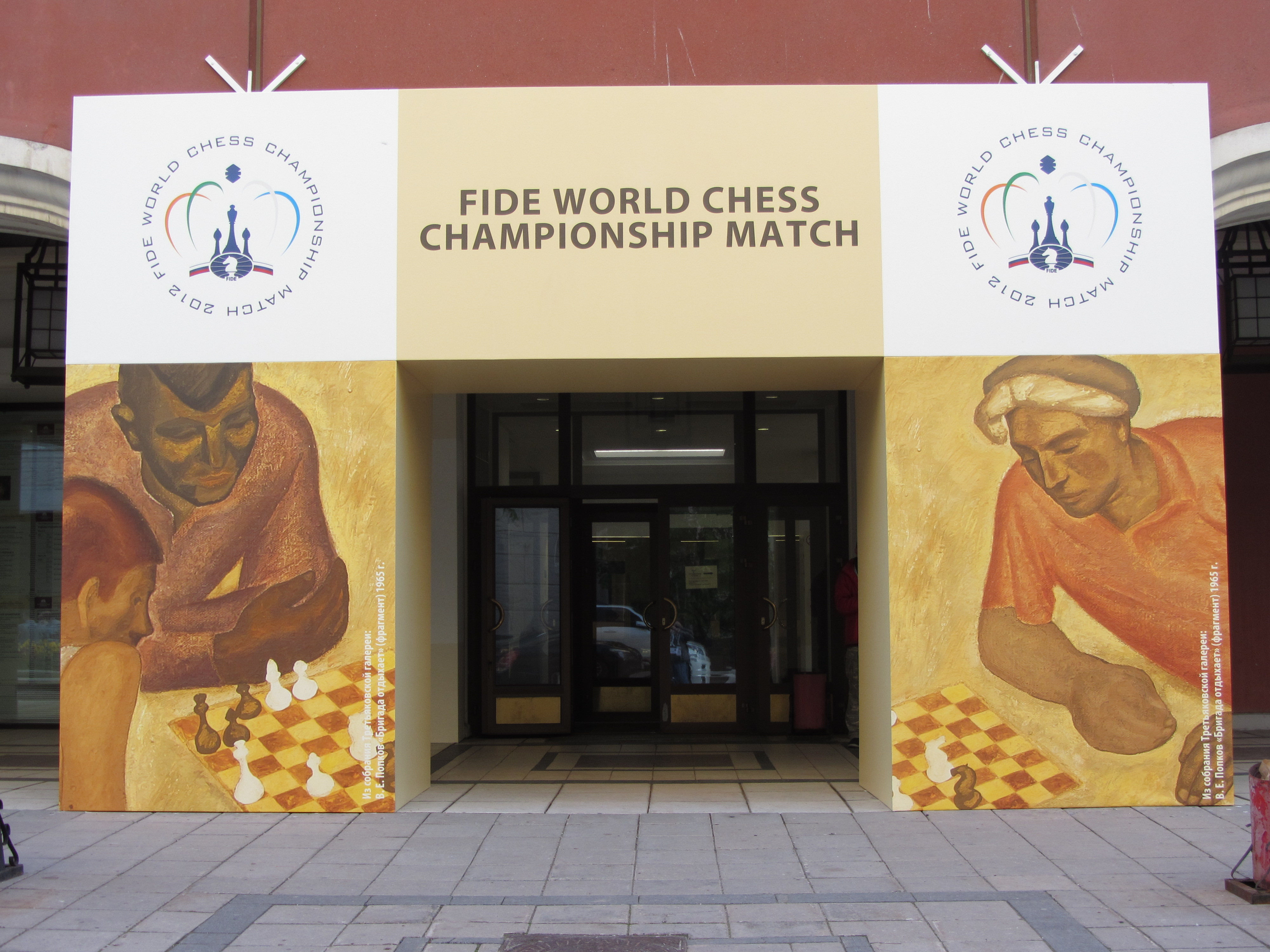 World Chess Championship 2012, Moscow